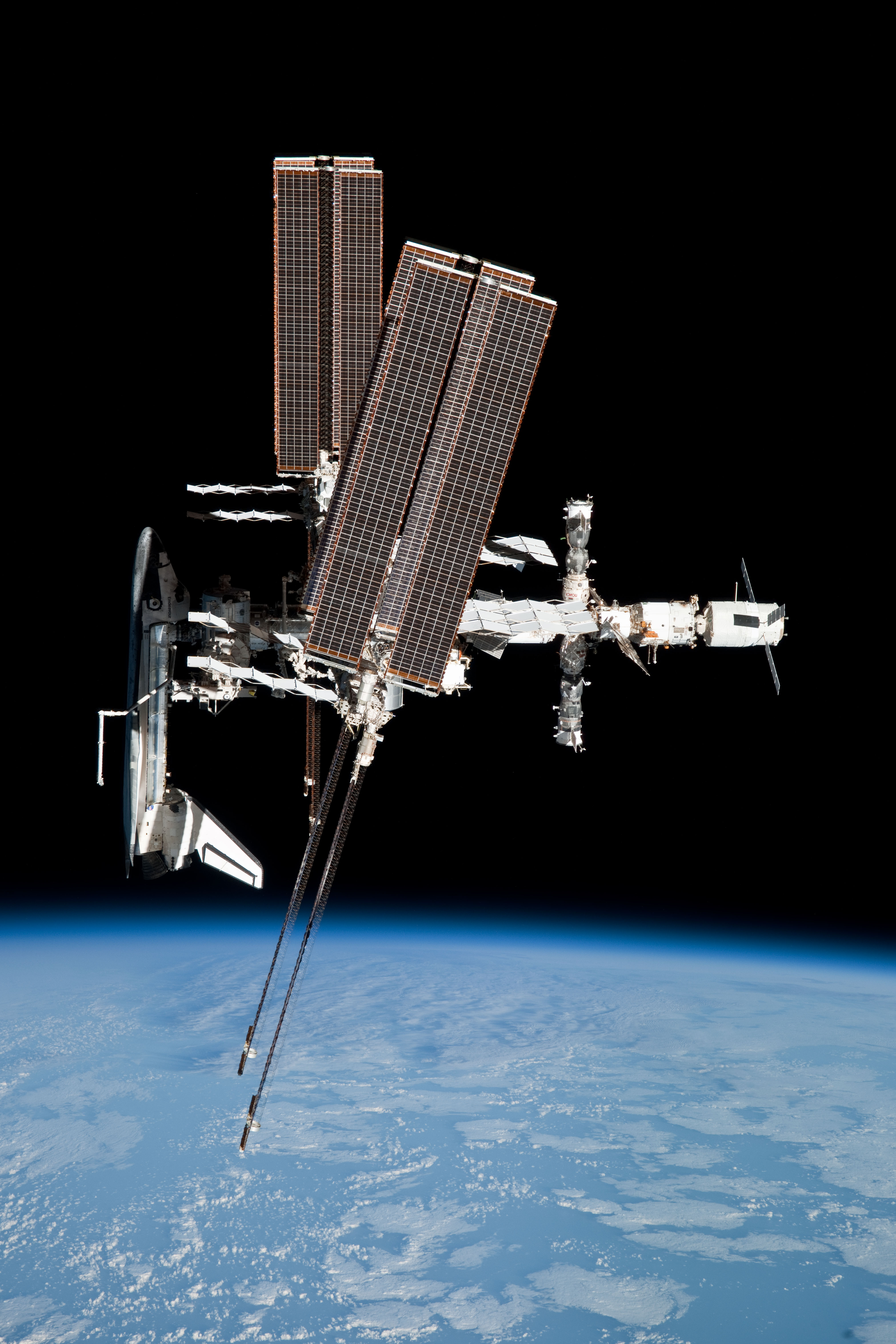 This image of the International Space Station and the docked space shuttle Endeavour, flying at an altitude of approximately 220 miles, was taken by Expedition 27 crew member Paolo Nespoli from the Soyuz TMA-20 following its undocking on May 23, 2011 (USA time). The pictures taken by Nespoli are the first taken of a shuttle docked to the International Space Station from the perspective of a Russian Soyuz spacecraft. Onboard the Soyuz were Russian cosmonaut and Expedition 27 commander Dmitry Kondratyev; Nespoli, a European Space Agency astronaut; and NASA astronaut Cady Coleman. Coleman and Nespoli were both flight engineers. The three landed in Kazakhstan later that day, completing 159 days in space.